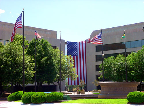 Downtown Belleville Illinois Courthouse Image taken by me- Ralph Moran